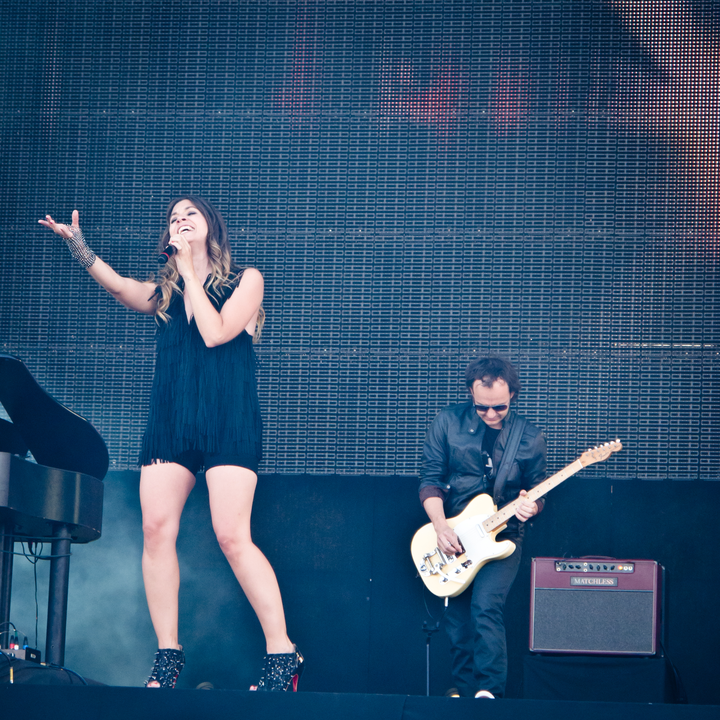 La oreja de Van Gogh in Rock in Rio Madrid 2012.